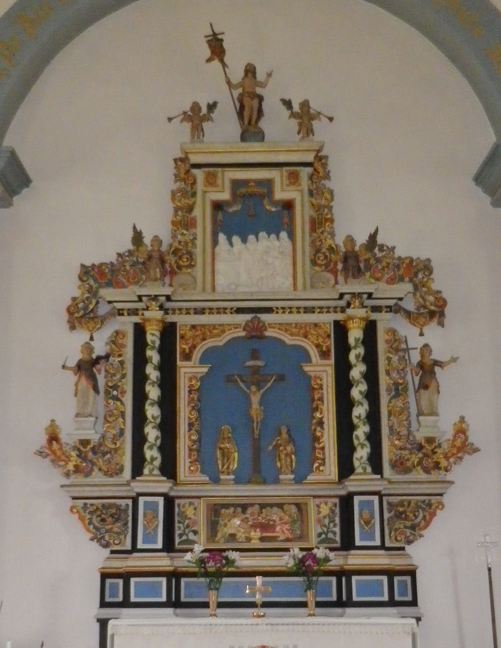 Lenhovda Church.Reredos executed in 1748 by sculptor Peter Segervall.